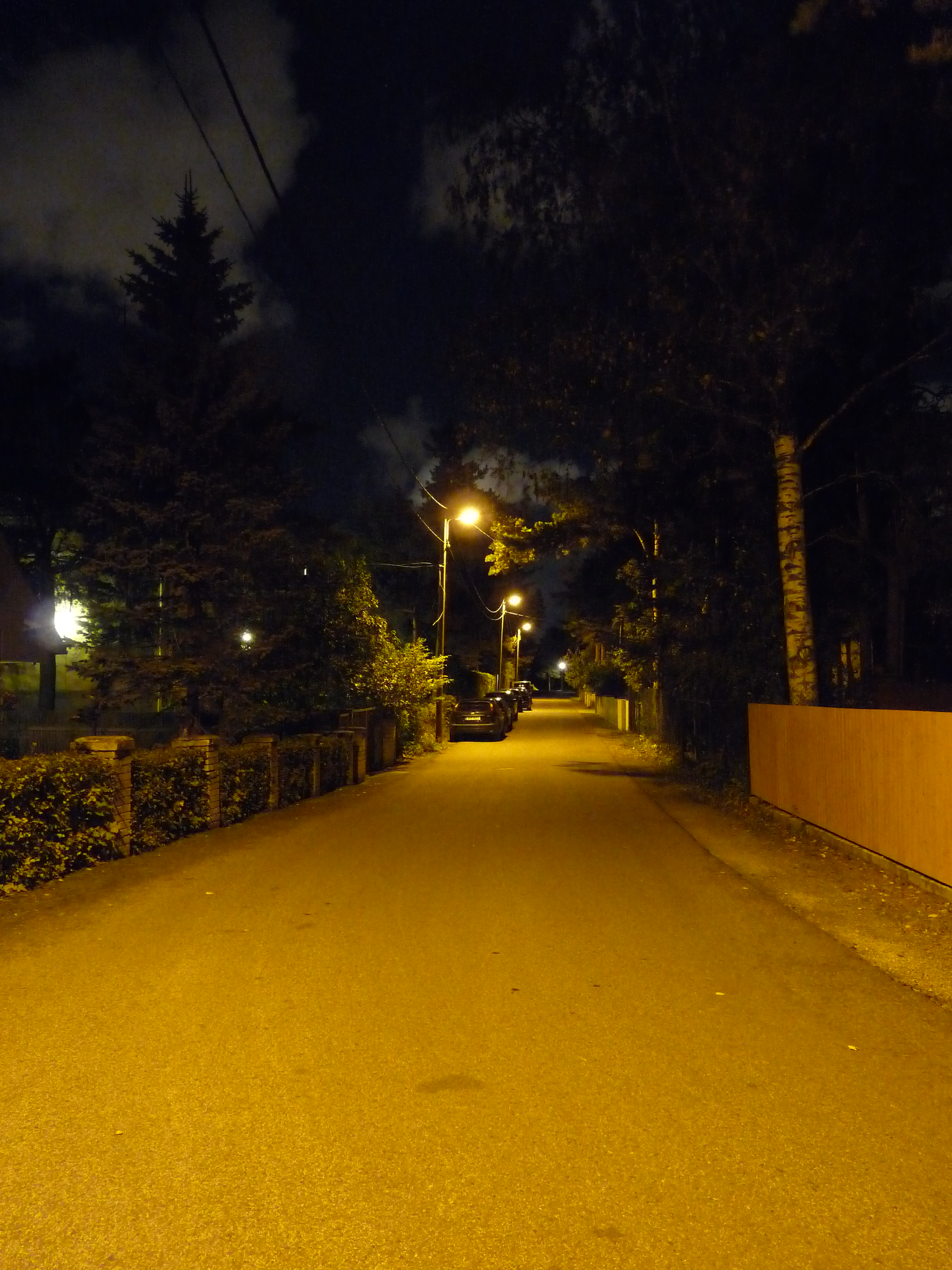 Orava street in Tallinn, Estonia